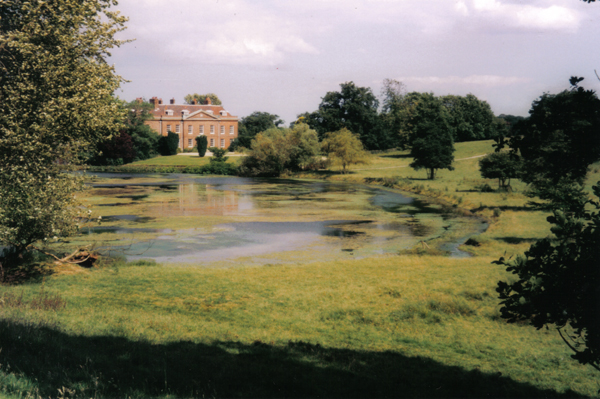 Well Vale Hall, Well, Alford, Lincs. A three-storey 1720s red brick house in parkland with three lakes at the edge of the Wolds; it was occupied by a school at the time the picture was taken.